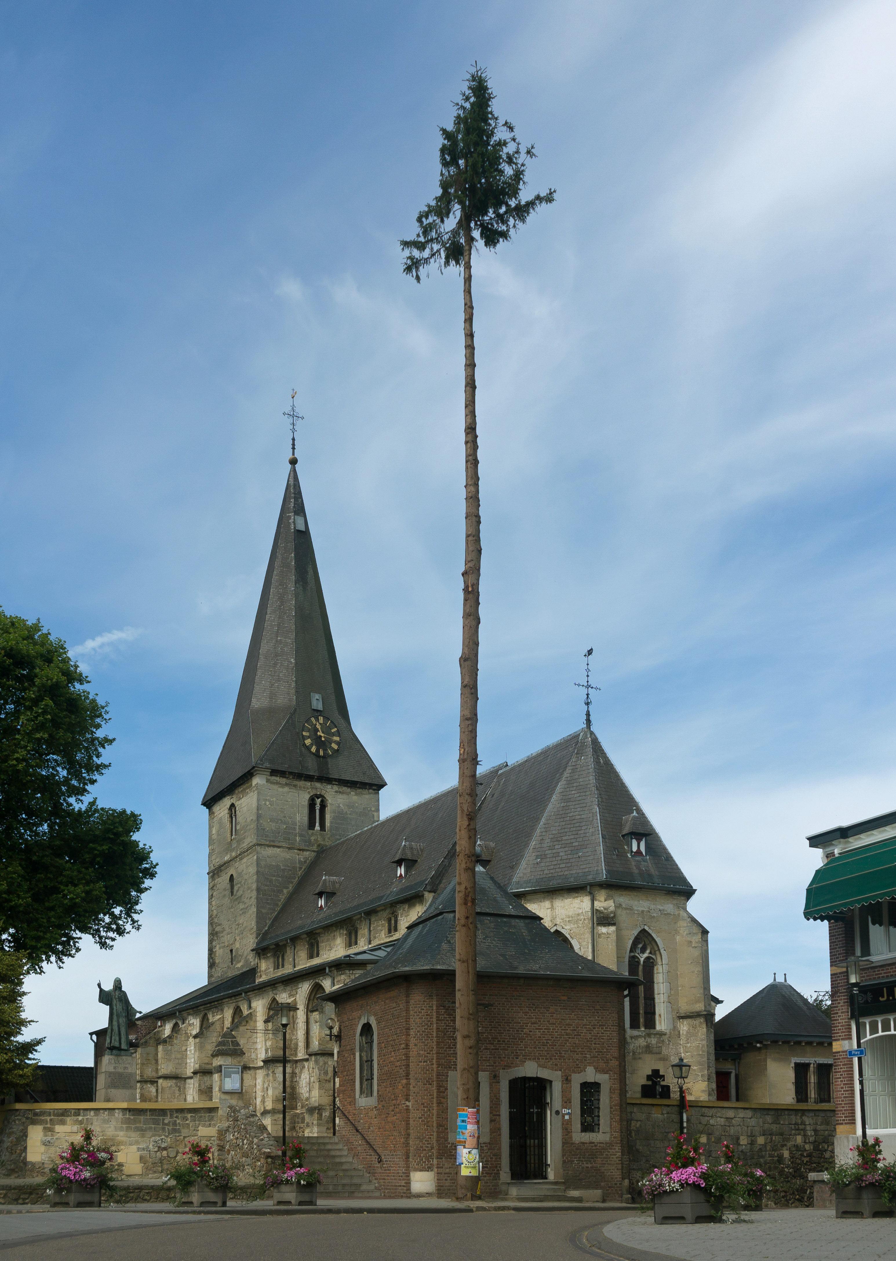 Noorbeek, church: de Sint-Brigidakerk